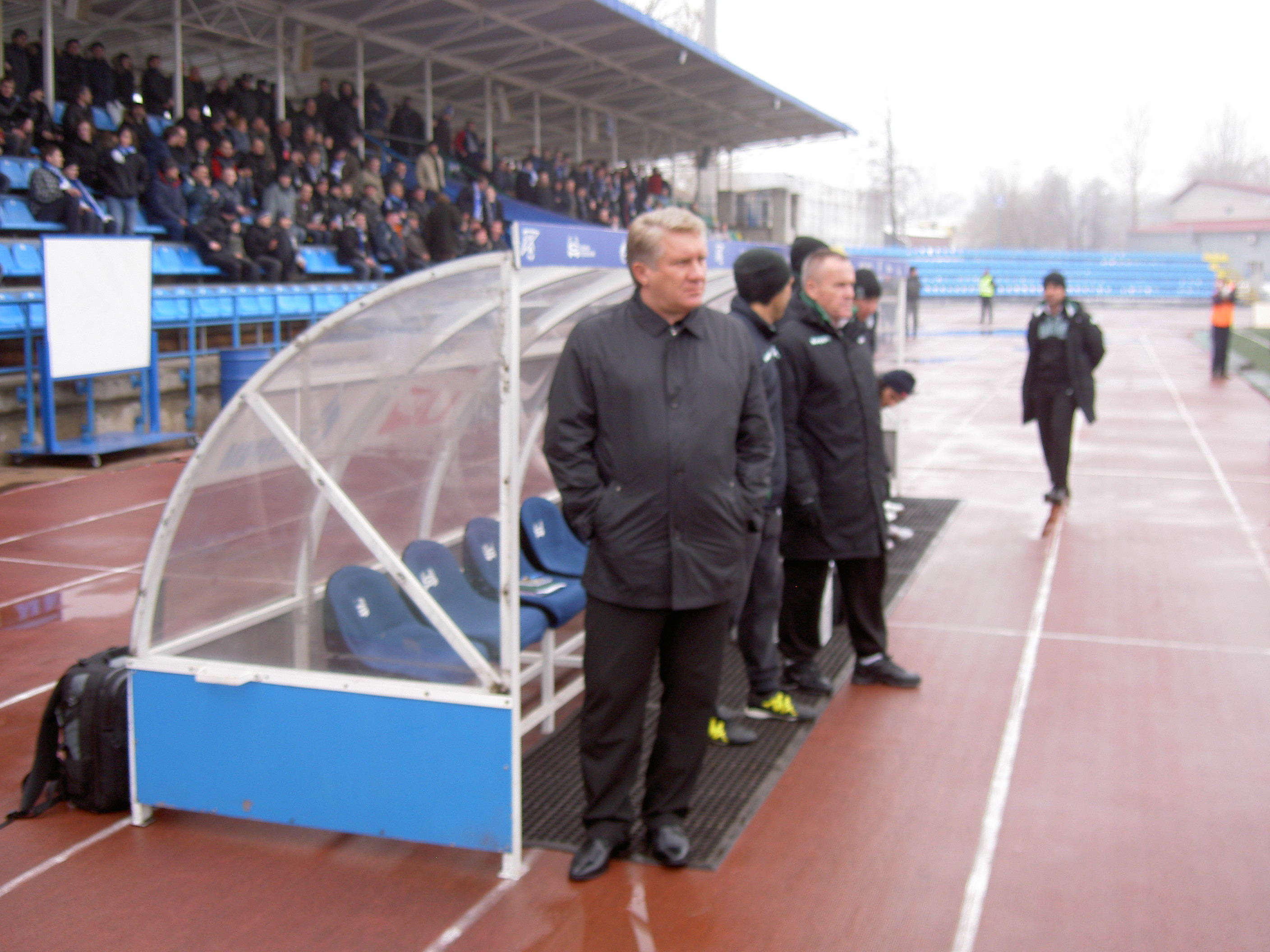 Sergei Tashuyev as a coaches of FC Krasnodar in 2010 year